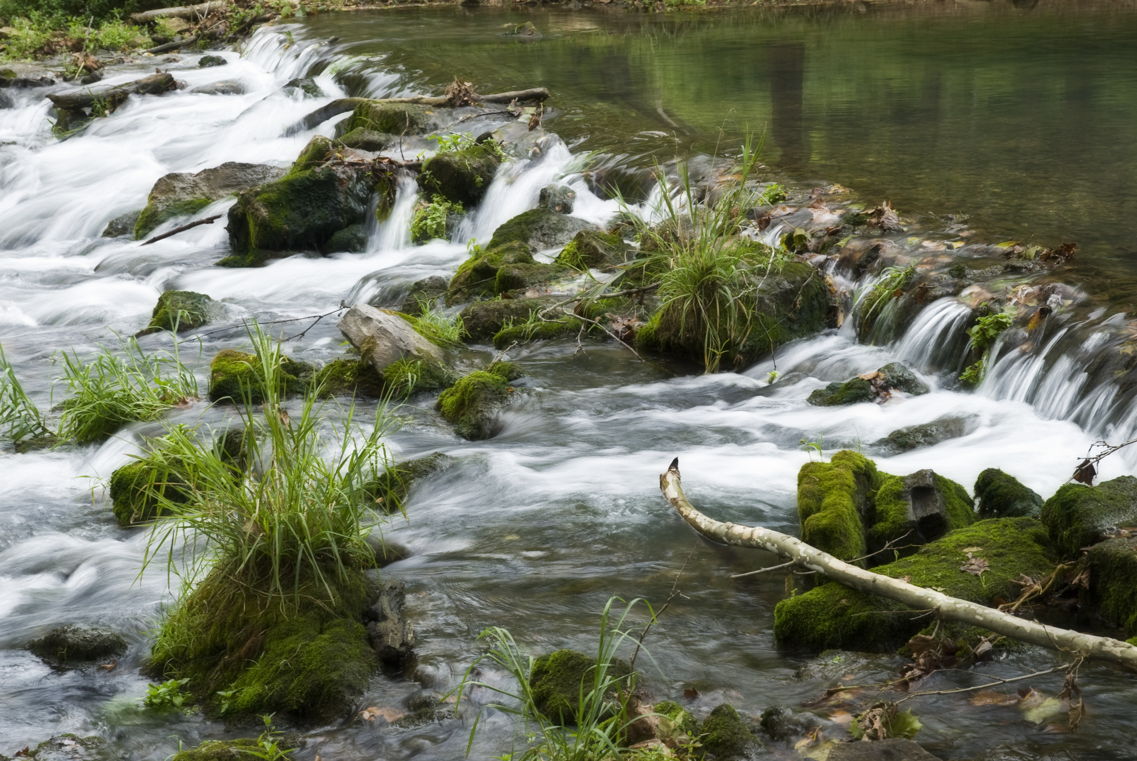 There is no shortage of opportunities to shoot the water rippling over the rocks at Roaring River State Park. This photo was taken on August 28, 2009 in Barry County, Missouri.